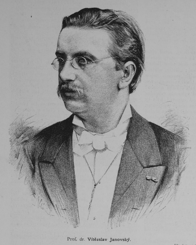 Portrait of Vítězslav Janovský, Czech professor of medicine.